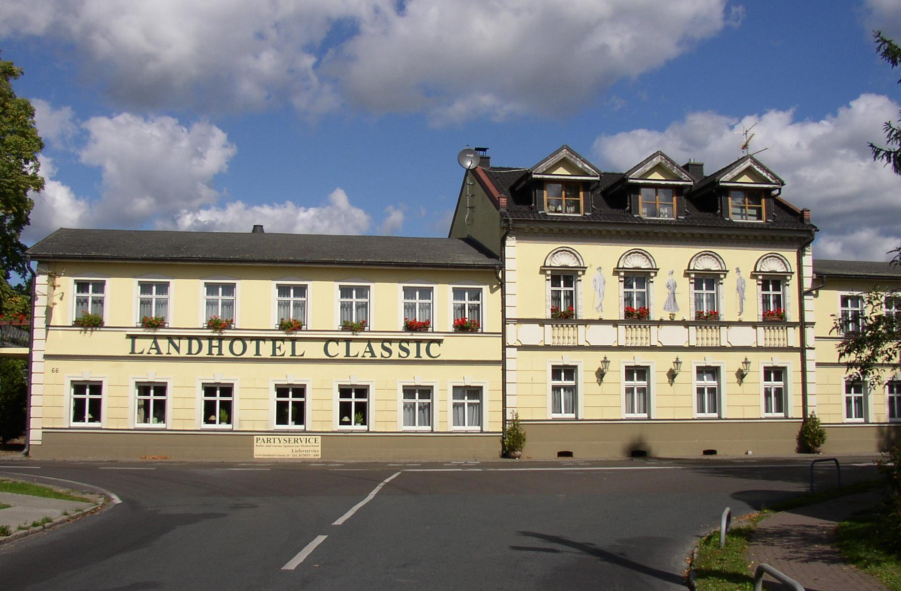 Inn in Oranienburg-Wensickendorf in Brandenburg, Germany